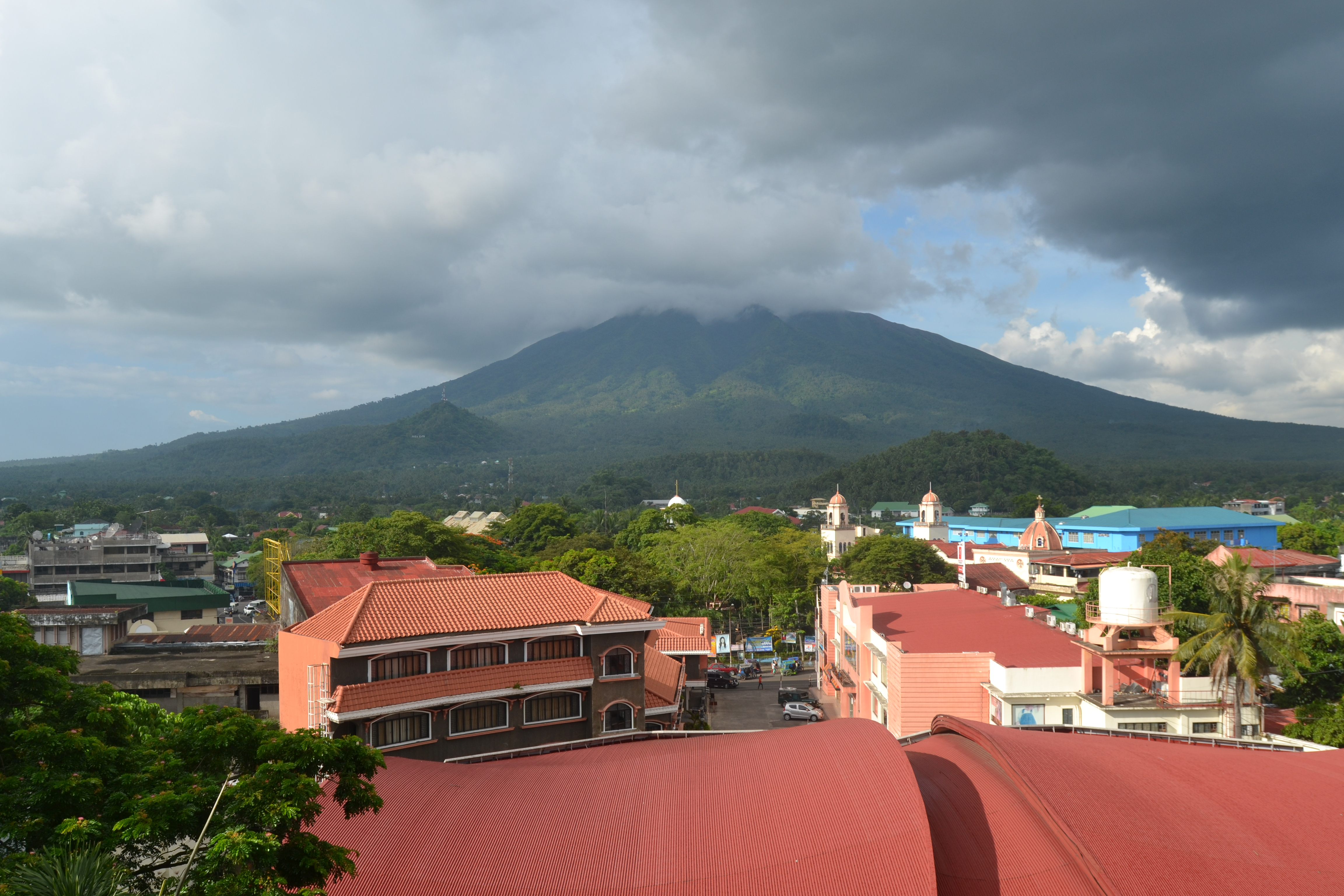 view from grotto